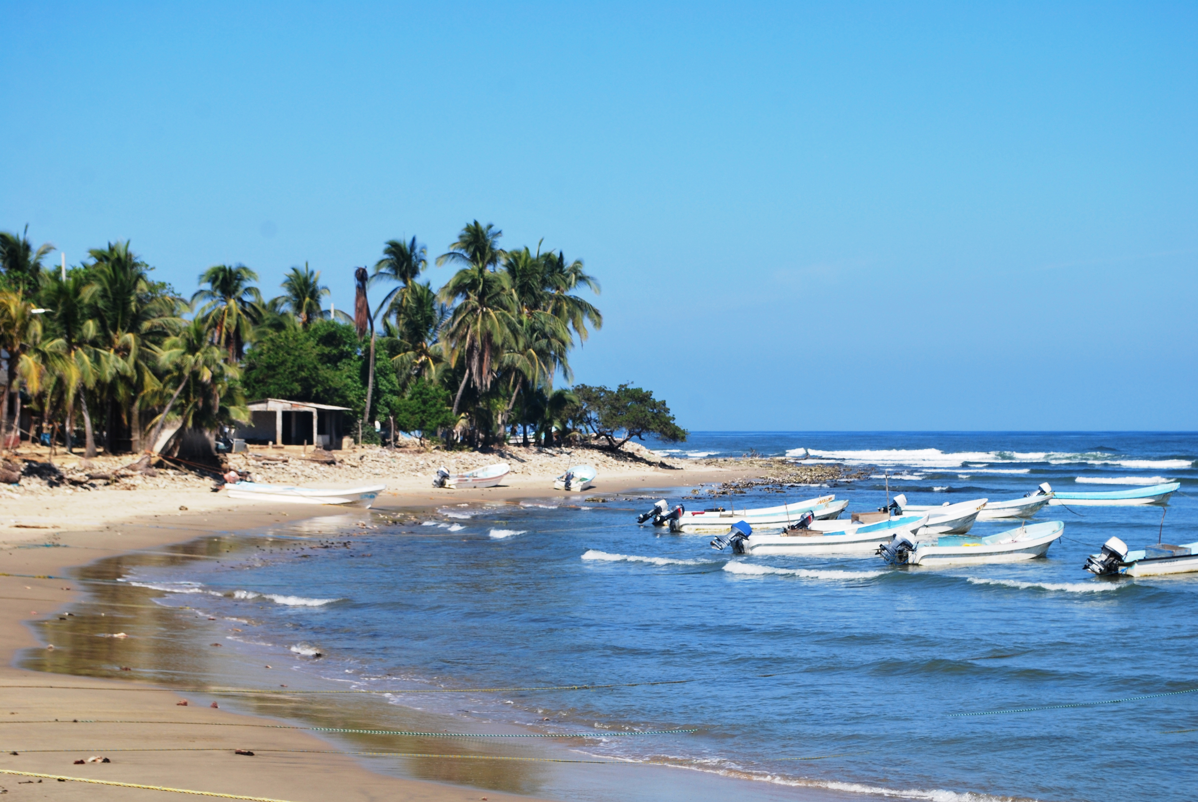 Shoreline at Punta Maldonado, Cuajinicuilapa, Guerrero